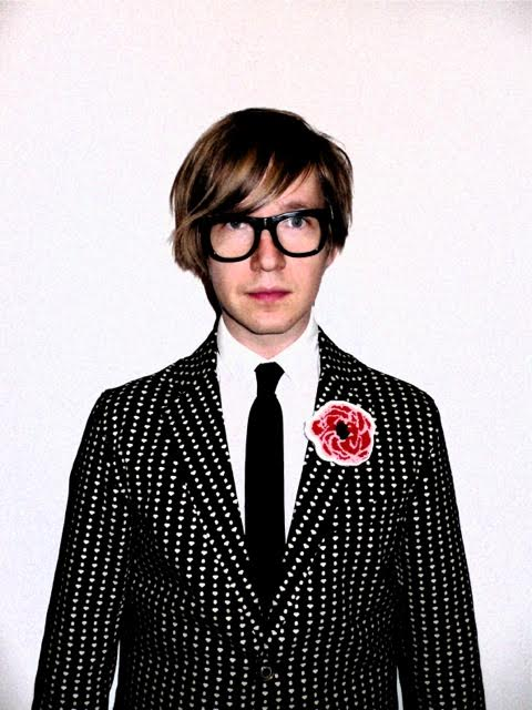 Photo of Producer Fred Ball